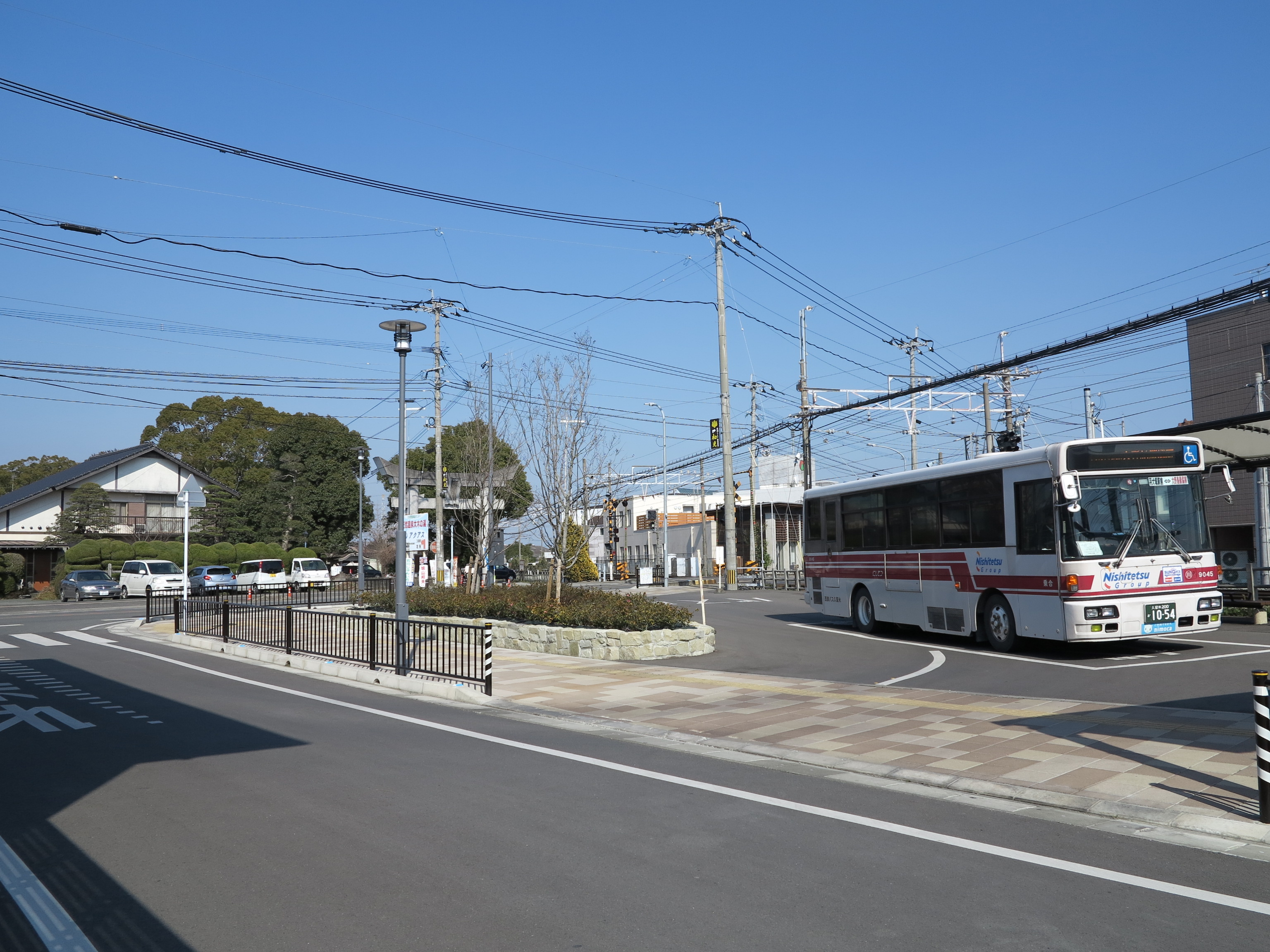 The bus terminal in front of Hatchomuta Station in Fukuoka Prefecture, Japan